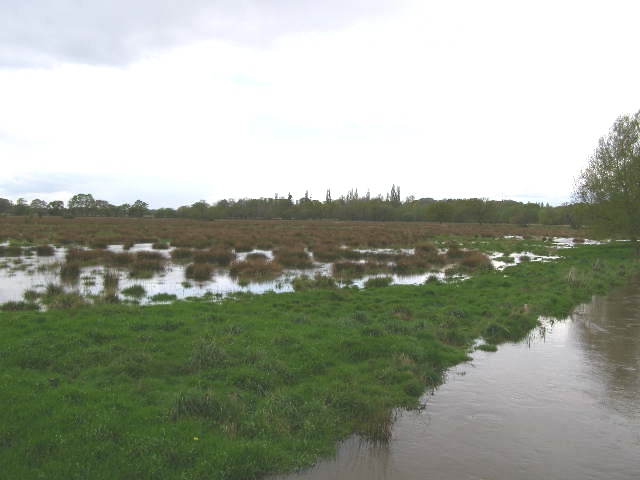 Water Meadows The water meadows are covered here by 'tussocky brown reed-like grass'.